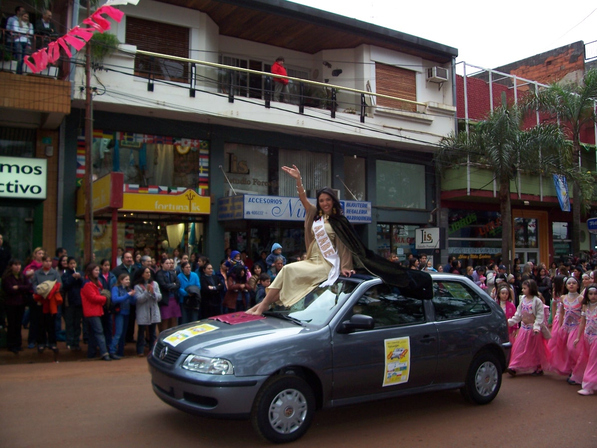 Rocío Chalup, queen of the Arabian colectivity, during the inaugural parade of XXVI Immigrant's National Festival, in Oberá, Misiones, Argentina.